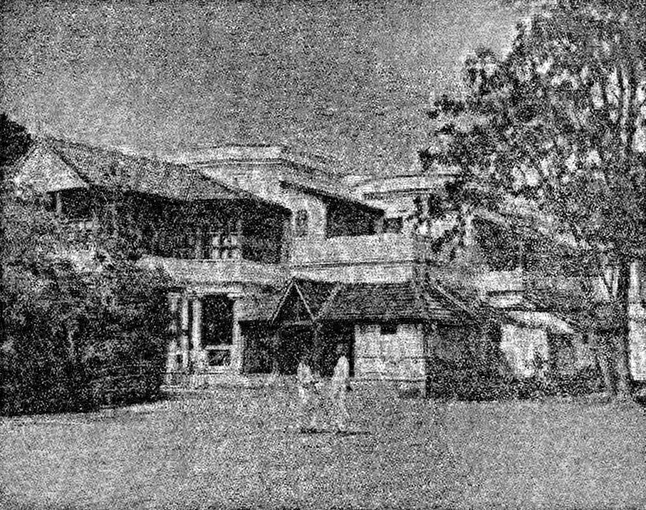 The pioneer of telugu film industry